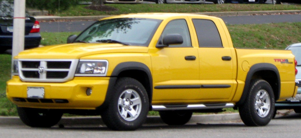 2008-2010 Dodge Dakota photographed in Silver Spring, Maryland, USA.